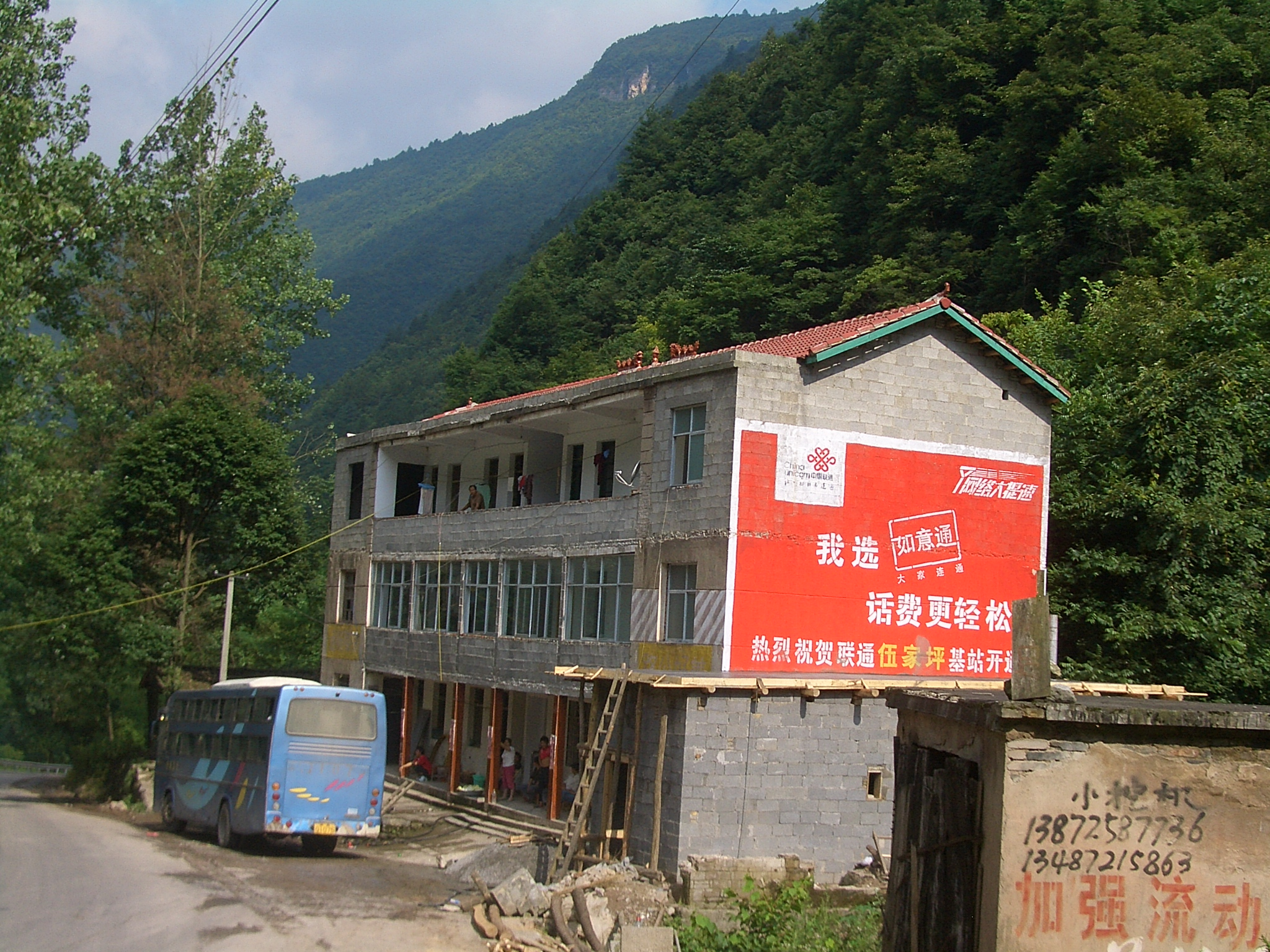 On National Hwy 209 (G209) in Xingshan County, Hubei. Climbing from Gaoqiao Township (in the valley of the Liangtai River) to Wujiaping (on the crest of mountain range, near Mt. Wanchaoshan)